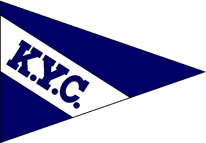 Kenosha Yacht Club Burgee